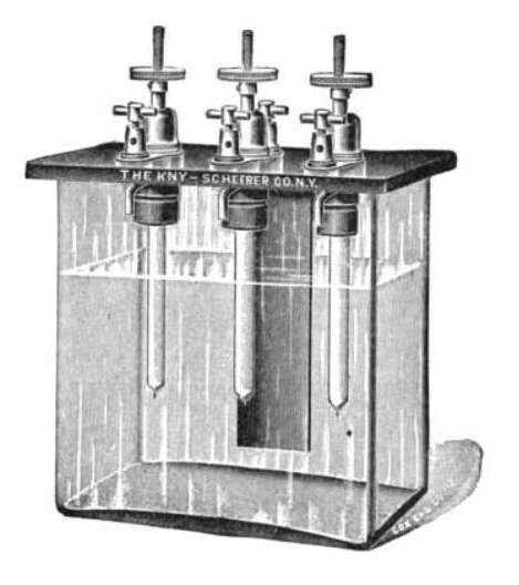 A Wehnelt interrupter, an antique electrical device invented in 1899 by German physicist Arthur Wehnelt and used with large induction coils until the 1920s. Induction coils require an interrupter in the primary circuit to periodically break the DC primary current to create the magnetic flux changes in the coil that induce voltage in the secondary coil. The Wehnelt interrupter consisted of a short platinum needle electrode projecting into a jar of electrolyte such as dilute sulfuric acid, and an anode electrode consisting of a lead plate. The above interrupter has three electrodes; the short platinum wires can be seen projecting out of the bottom of the white porcelain insulators. When the coil's primary current flowed through the interrupter, it continually created hydrogen gas bubbles on the platinum needle that repeatedly broke the circuit. The Wehnelt interrupter could create up to 2000 "breaks" per second, so it was superior to the vibrating arm "hammer" interrupters which were limited to a maximum rate of 200 breaks per second. It was used with the large induction coils that were employed to power cold-cathode x-ray machines and spark-gap radio transmitters up to the 1920s.